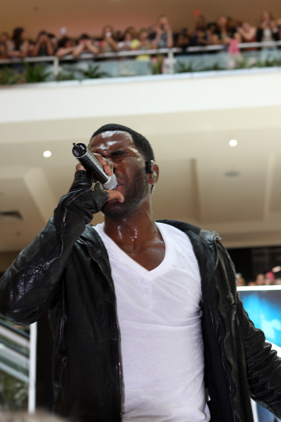 Jason Derulo performs at Parramatta, Australia, by Eva Rinaldi - Parramatta Westfield was packed and young ladies (and a couple of young men) could be heard screaming and yelling, as Jason Derulo hit the stage. The ultra talented and popular Derulo is a 16 multi-platinum singer - songwriter. The heartthrob performed some of his most popular numbers including It Girl, Don’t Wanna Go Home and In My Head. You can be the Westfield powers that be were happy to have the teen idol showcased at Parramatta. Parra's centre manager, Stuart Elder, told the press he was very excited to have Derulo. "We are very excited to be welcoming Jason Derulo to Westfield Parramatta as part of our commitment to providing great entertainment for our customers." "We’ve had an overwhelming response from our Facebook fans to news of Jason’s appearance in our centre, so we expect big crowds on Sunday." If you didn't know, Derulo leaped into the music biz last year with his self-titled album, selling about 850,000 globally. This year he's enjoyed three top 10 hits and a host of awards and commendations including 2011 BMI Songwriter of the Year award. Make no mistake, this young man is on a mission. 'Whatcha Say and In My Head' snatched three times ARIA Platinum Certified, In My Head and Ridin’ Solo got two times ARIA Platinum Certified and his self titled album, Jason Derulo went ARIA Platinum Certified. The 22 year old's second album, Future History, is set to make history, which is likely Derulo's plan. Future History will showcased his two hot current numbers, Don’t Wanna Go Home and It Girl. I.G is enjoying being the #3 single down under. Websites Jason Derulo official website Westfield Eva Rinaldi Photography Flickr Eva Rinaldi Photography Music News Australia